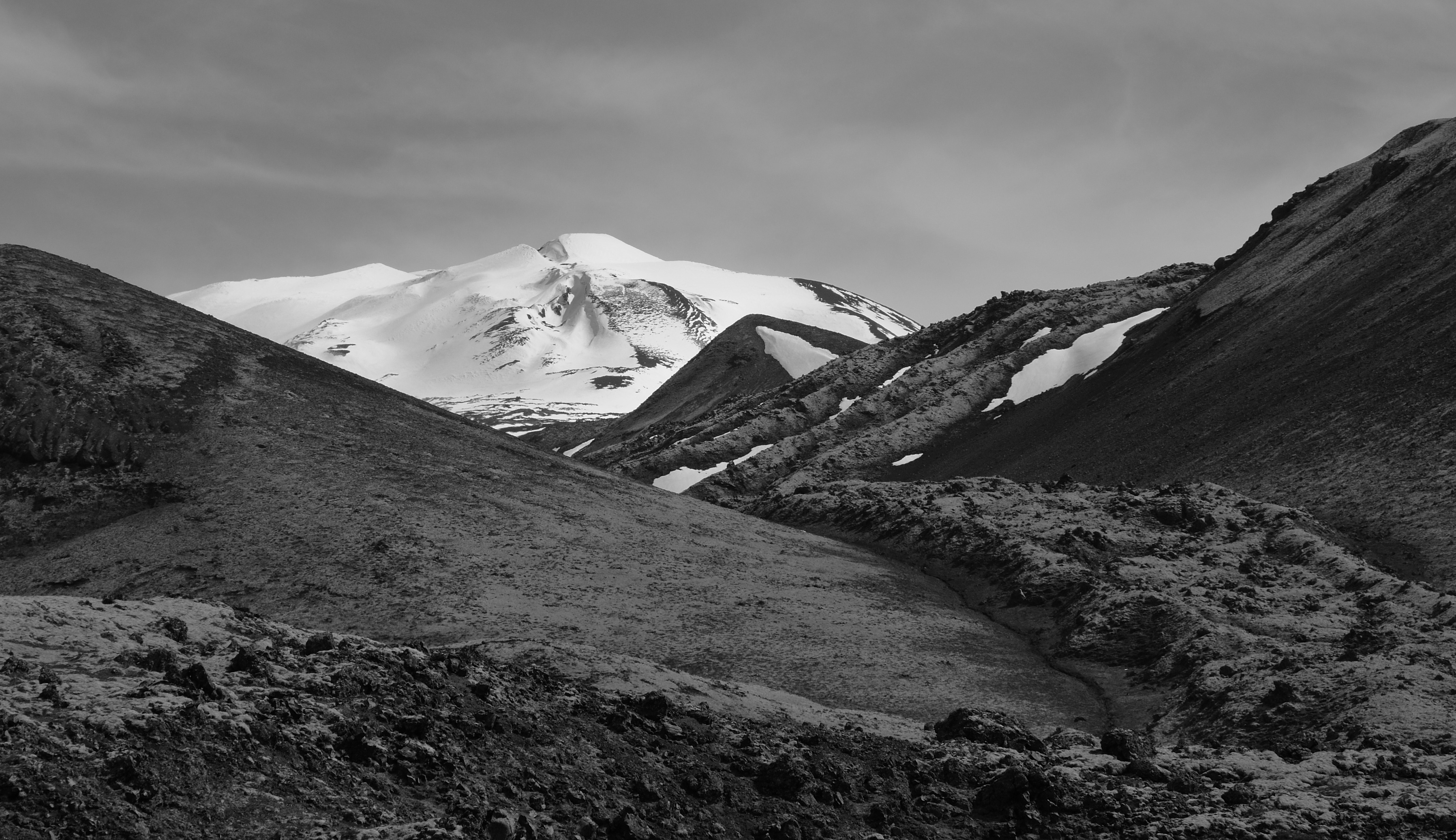 Hekla seen from the west from the lava field Pæla. The lava river is from the 1947 eruption .